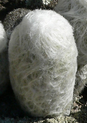 Espostoa nana at the University of California Botanical Garden, Berkeley, California